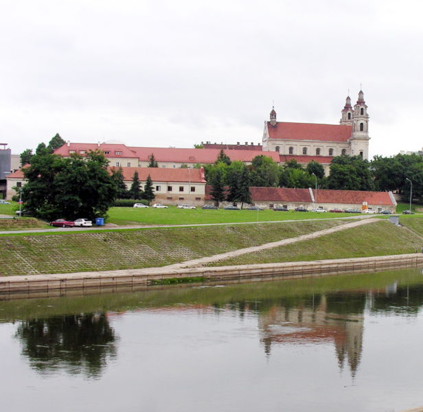 Church of the St Raphael the Archangel and former jesuit monastery in Vilnius